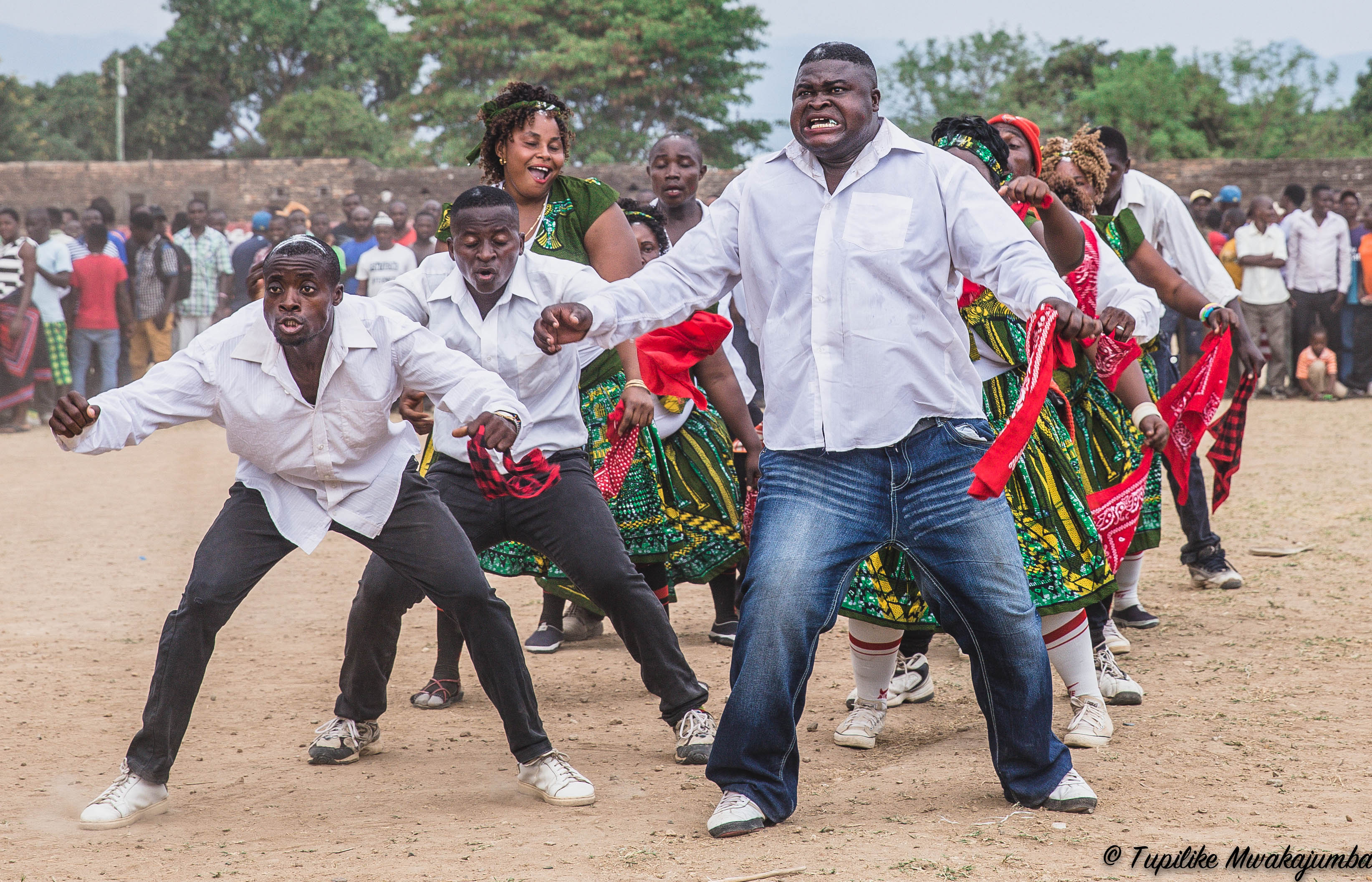 This is an image from Tanzania